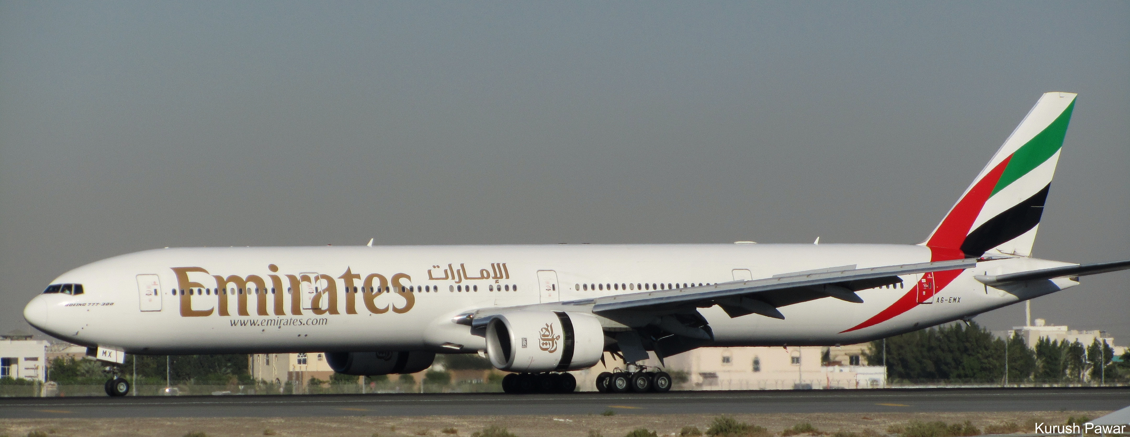 Registration: A6-EMX Airline: Emirates Aircraft: Boeing 777-31H Construction Number (MSN): 32702 Delivery: 24-06-2003 Flight Details: EK 902 / Queen Alia International Airport (AMM) - Dubai International Airport (DXB) Like my Facebook fan page